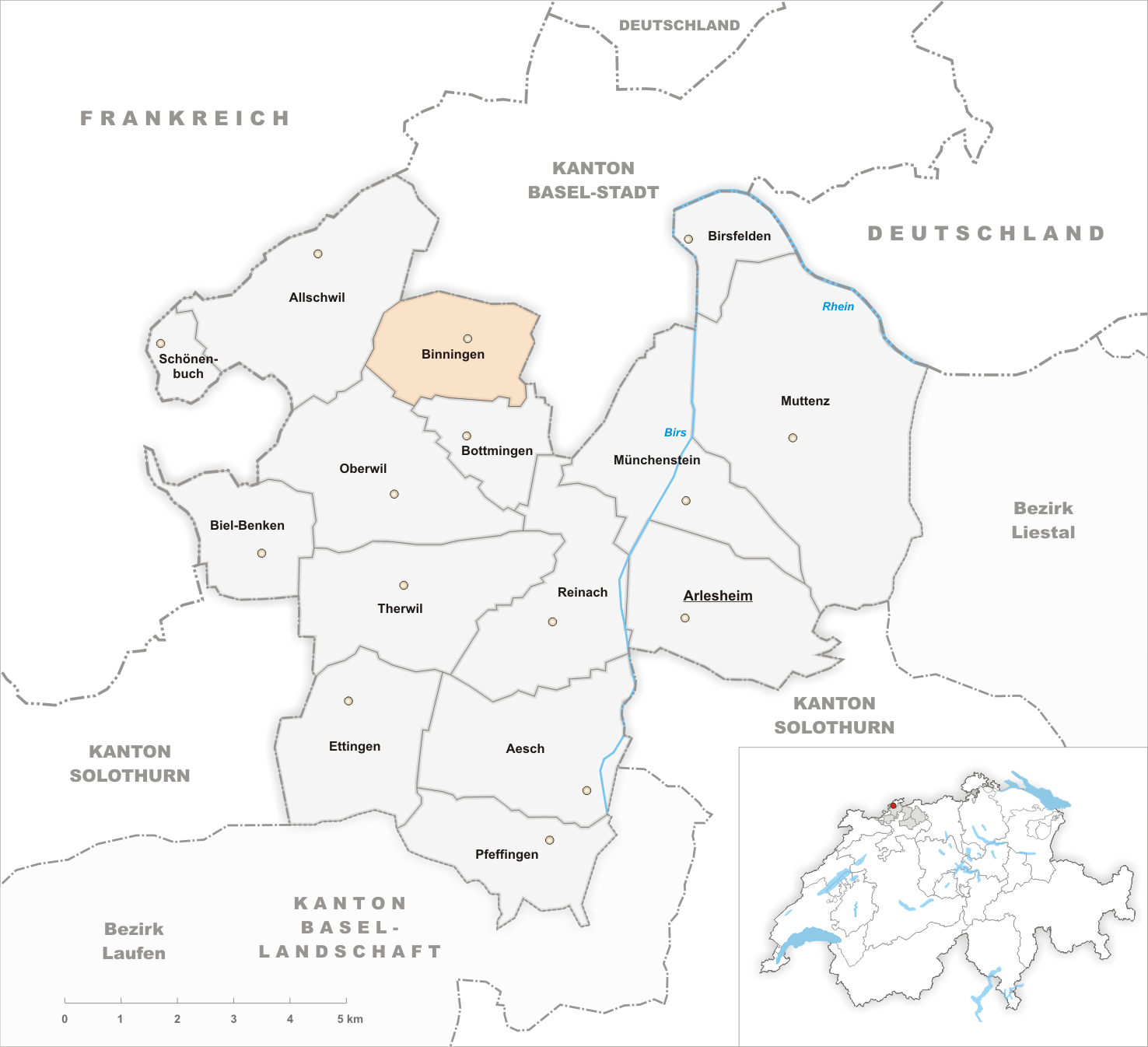 Municipality Binningen